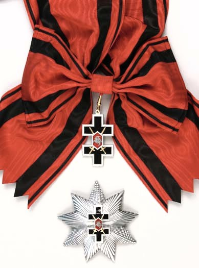 1st Class Order of the Cross of Vytis